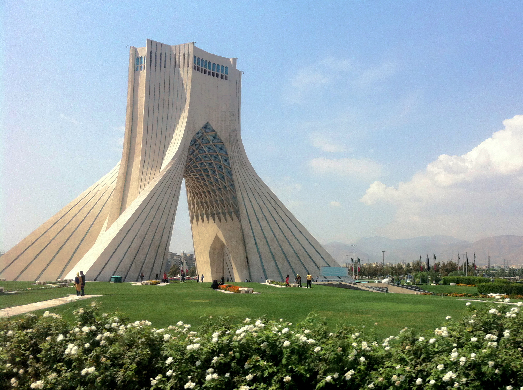 Azadi Tower, Tehran City